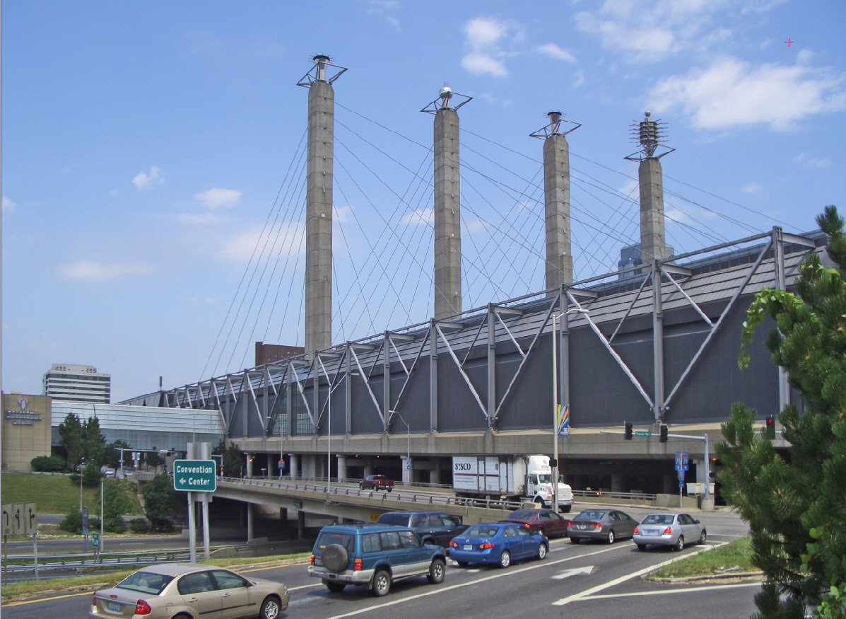 Bartle Hall Convention Center (viewed from southwest), Kansas City, Missouri